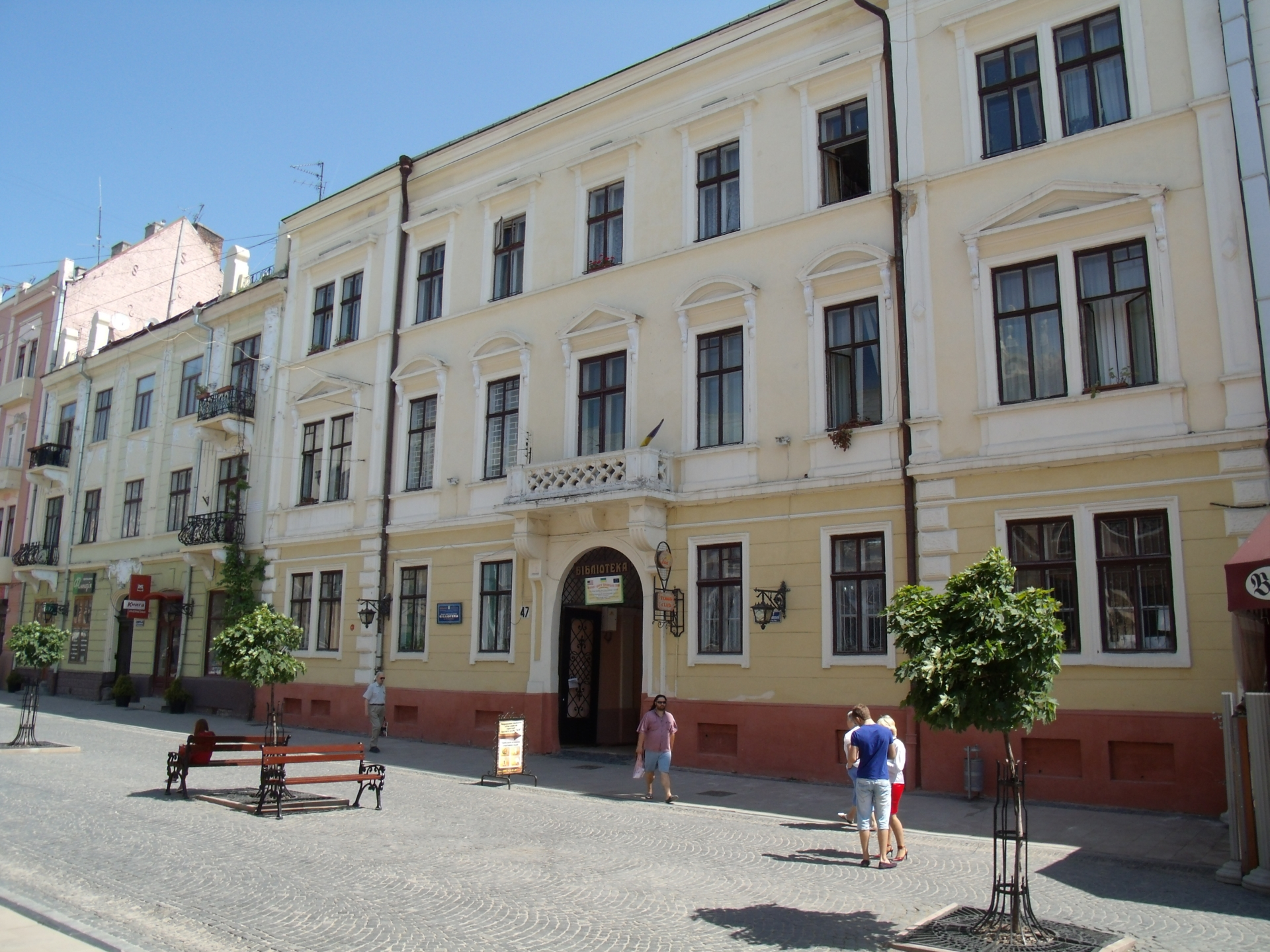 Chernivtsi, Kobylianska house 47